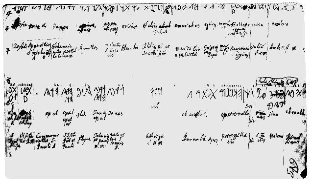 Old Hungarian script from 1450, translated in 1690 by the Italian naturalist and soldier Luigi Ferdinando Marsigli